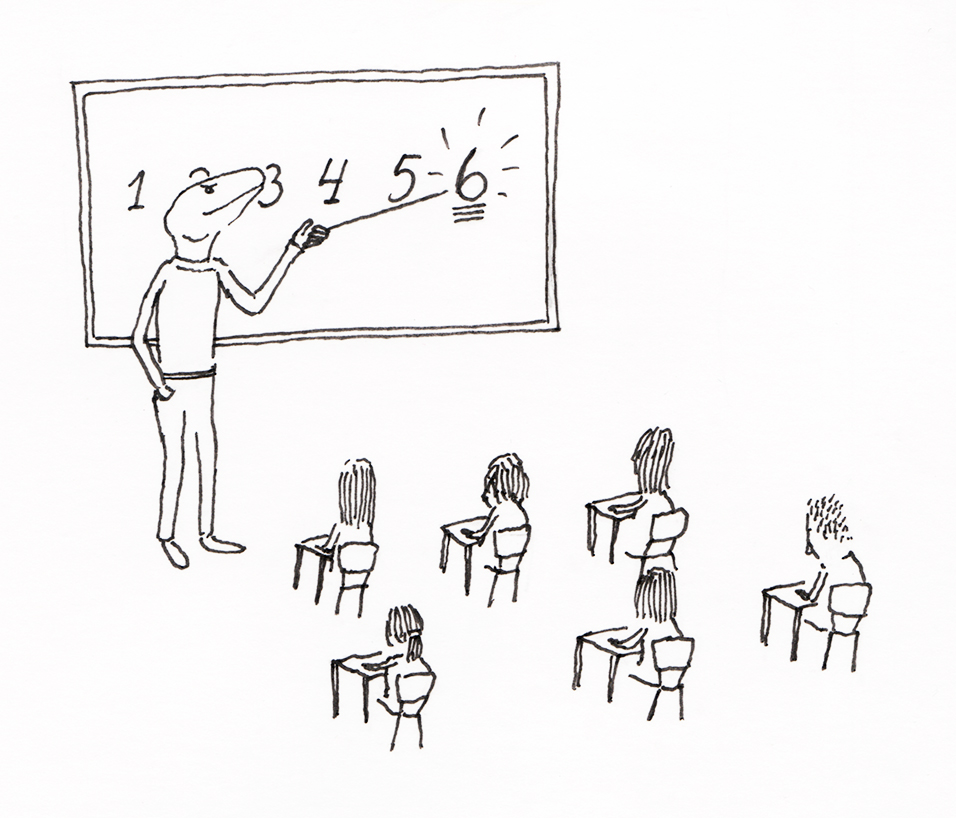 Illustration: The salamander (metaphor). Introduced by norwegian author Jens Bjørneboe.